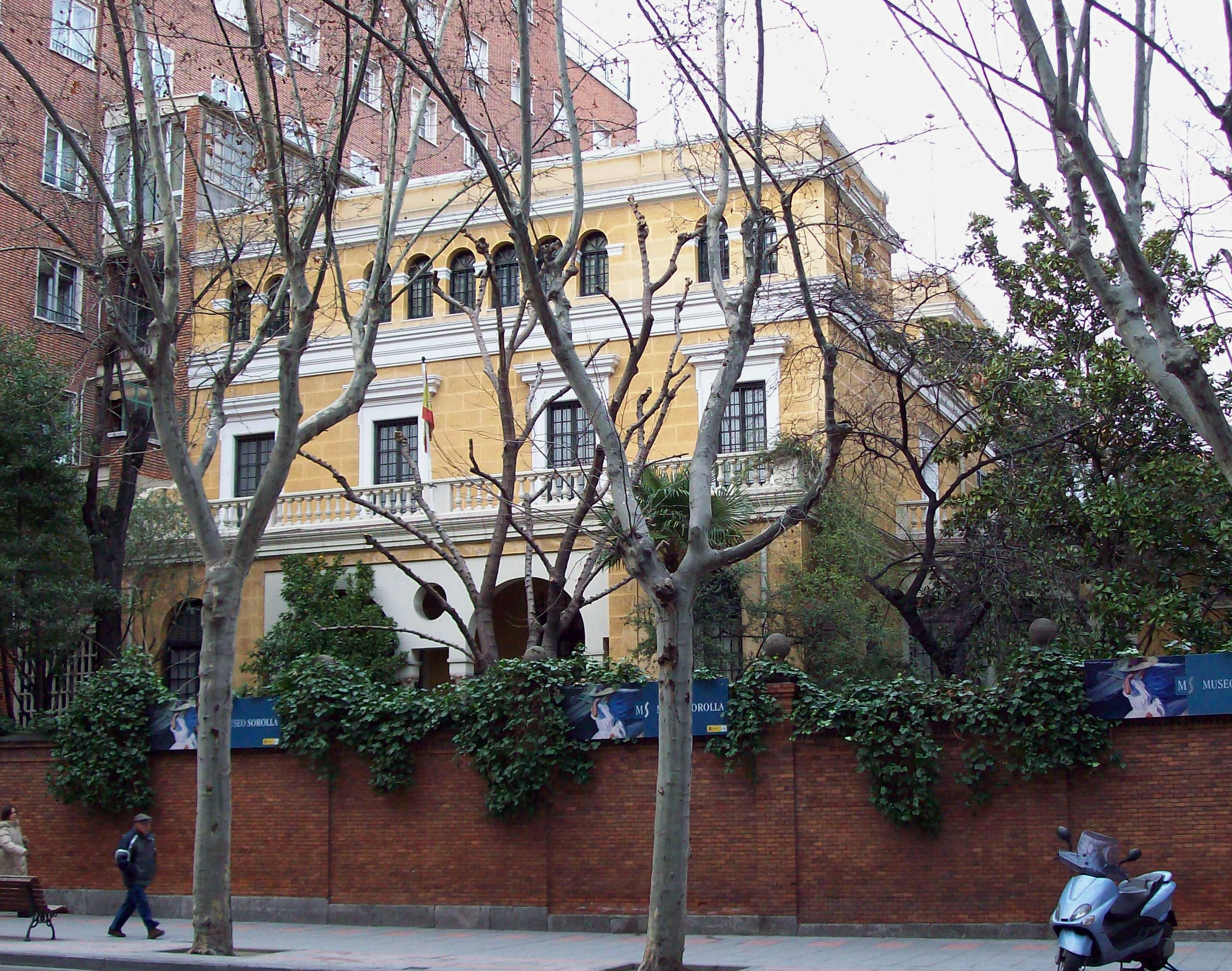 Façade of Sorolla Museum, at 37 Paseo del General Martínez Campos (street, Chamberí district) in Madrid (Spain).